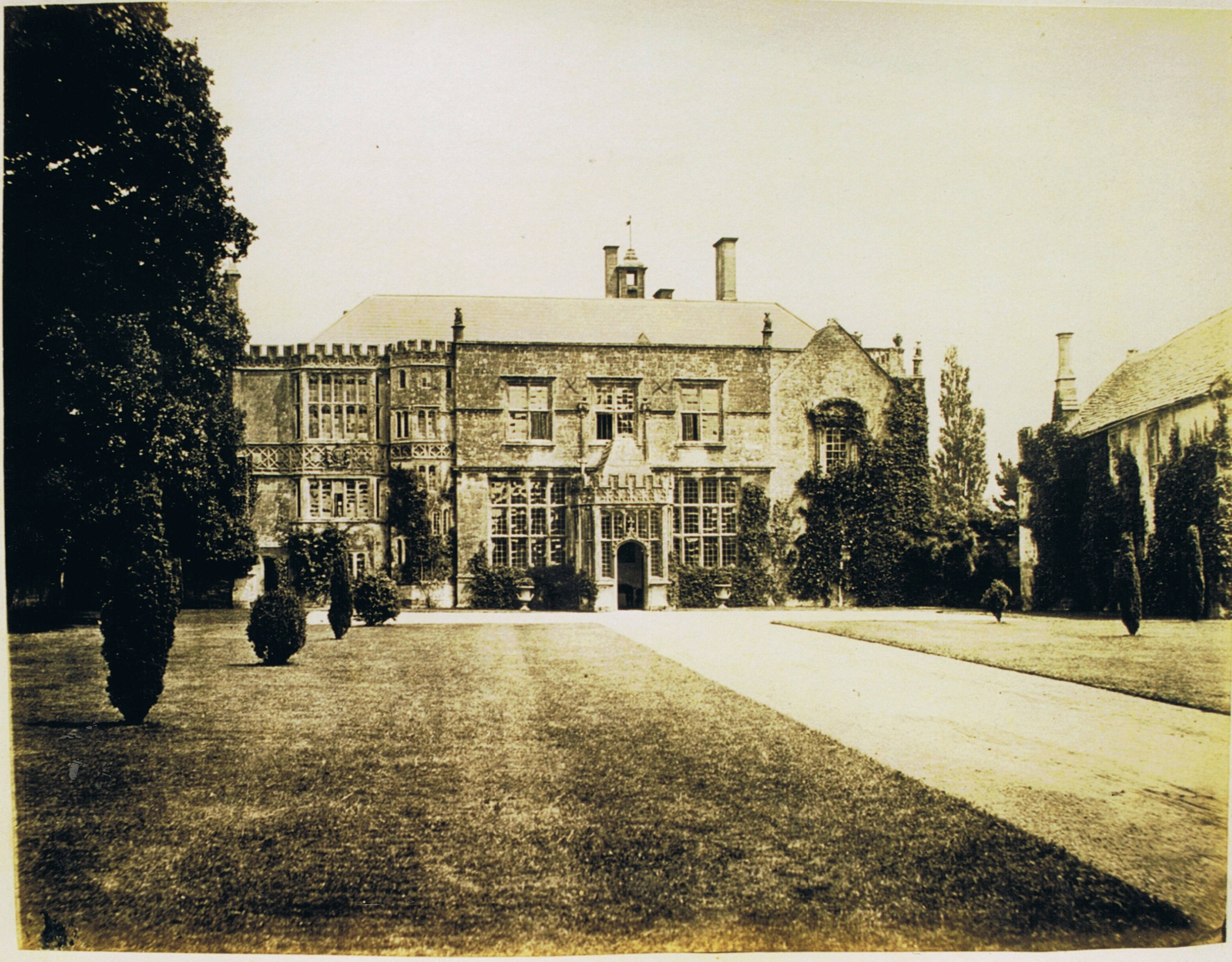 Brympton d'Evercy (also known as Brympton House), a manor house near Yeovil in the county of Somerset, England. Front entrance.